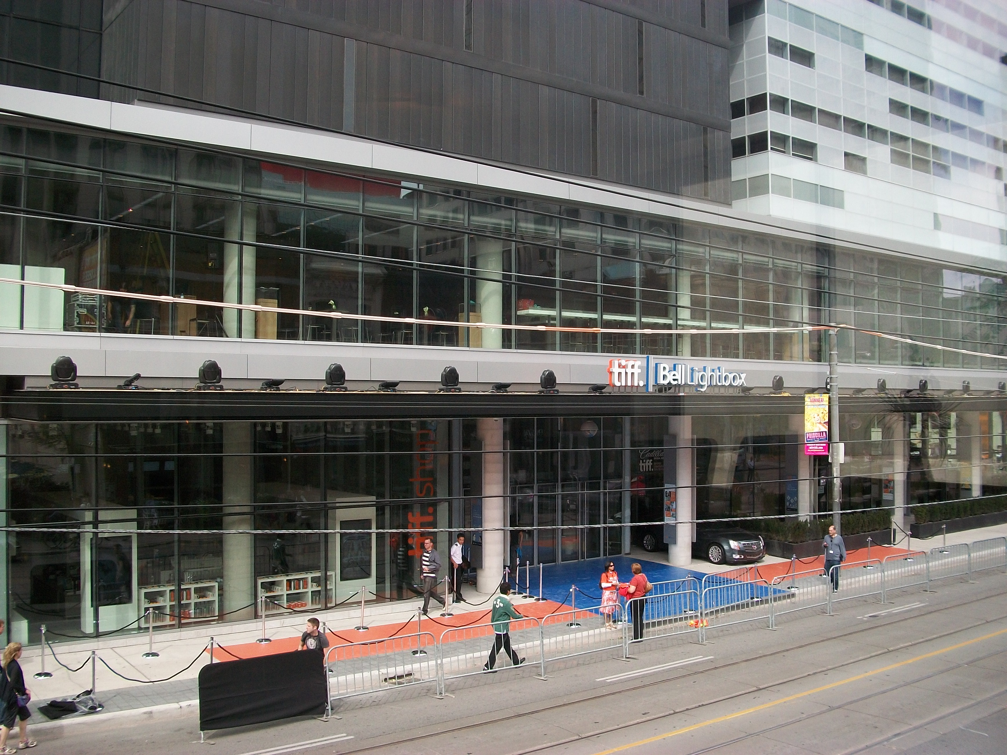 TIFF Bell Lightbox, one day before its official opening, shot from Dhaba Restaurant across the street.